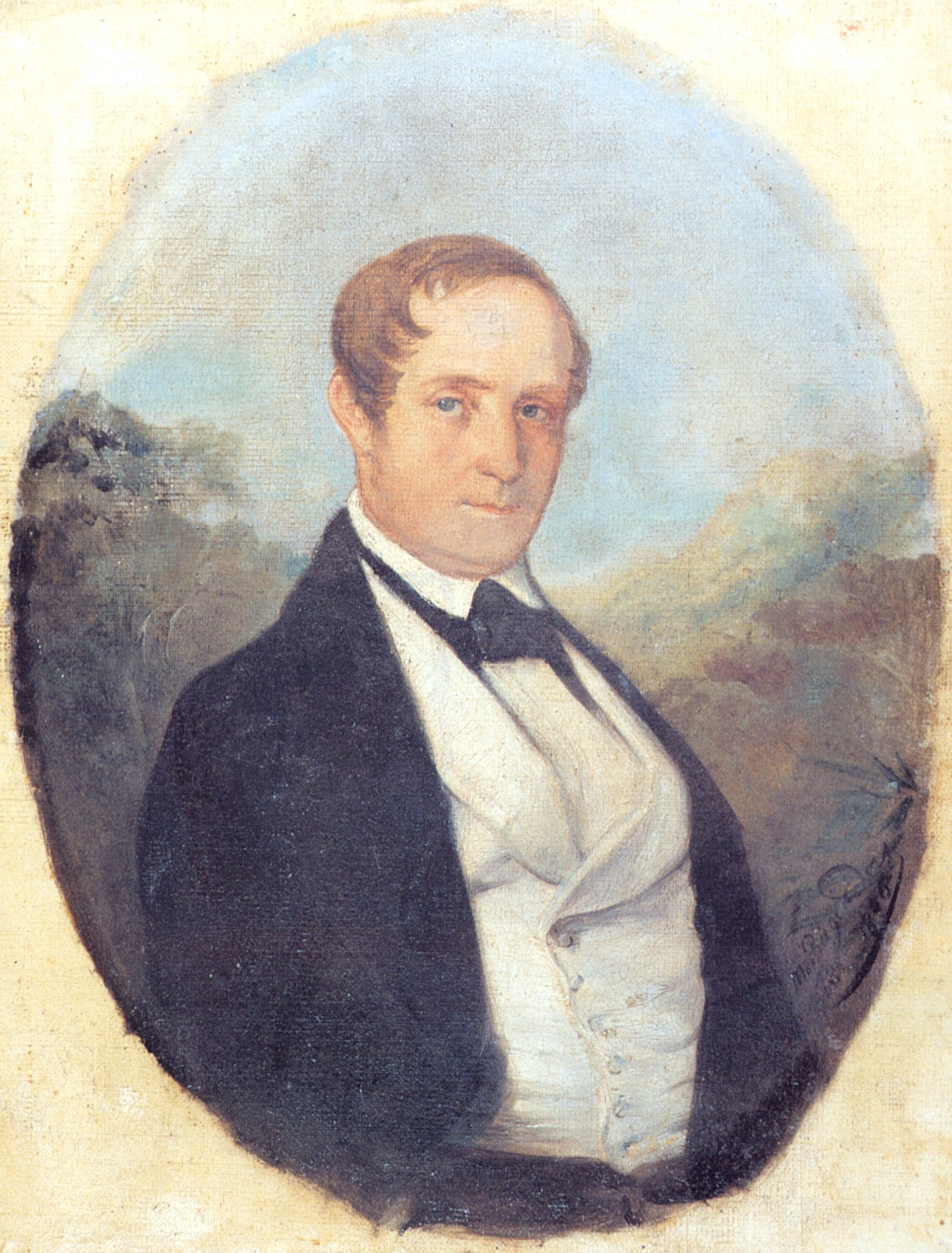 Ludwig Riedel (1790-1861), member of Georg Heinrich von Langsdorff's expedition.